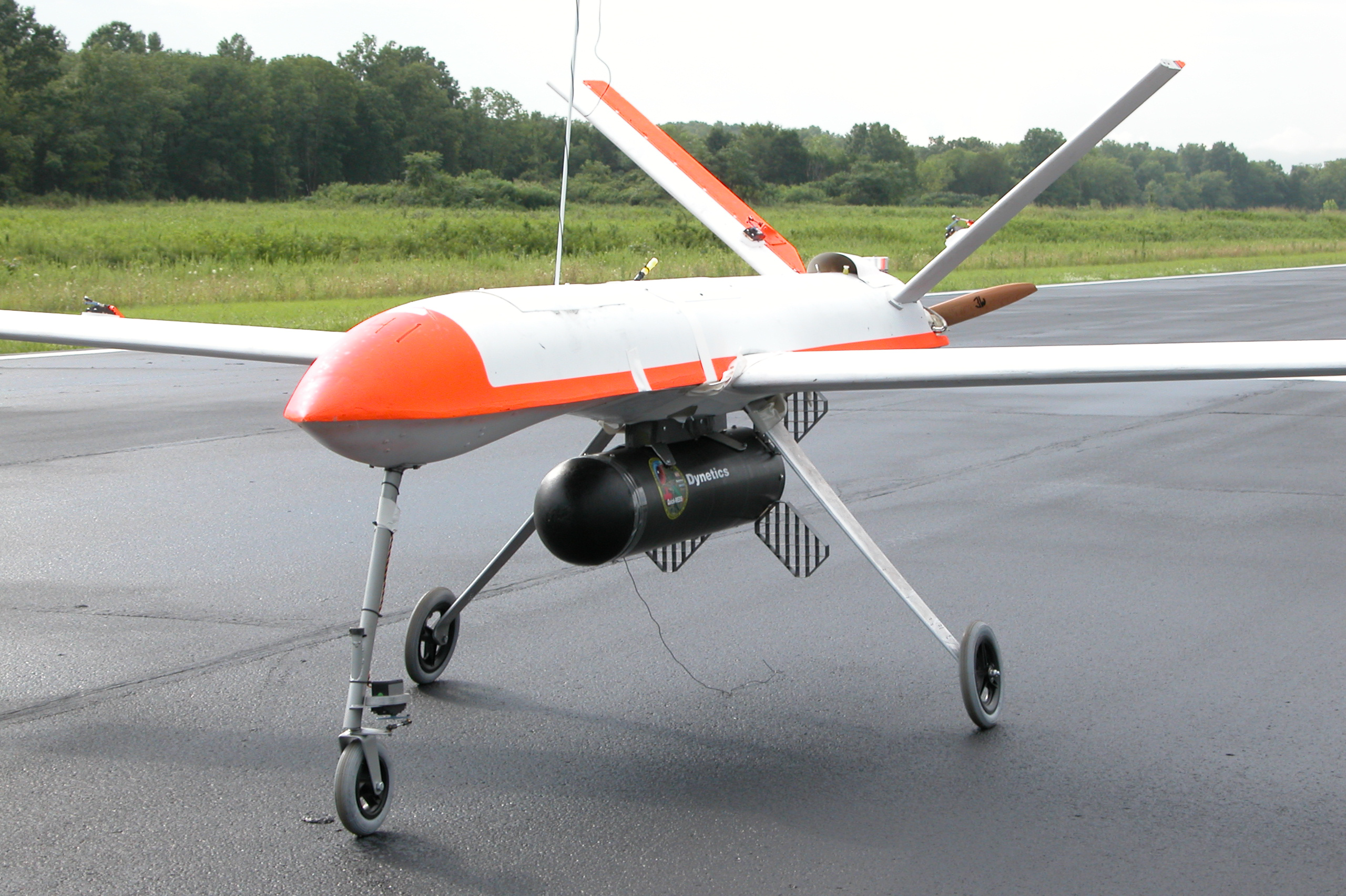 This is a picture of the Griffon MQM-170A Outlaw UAV